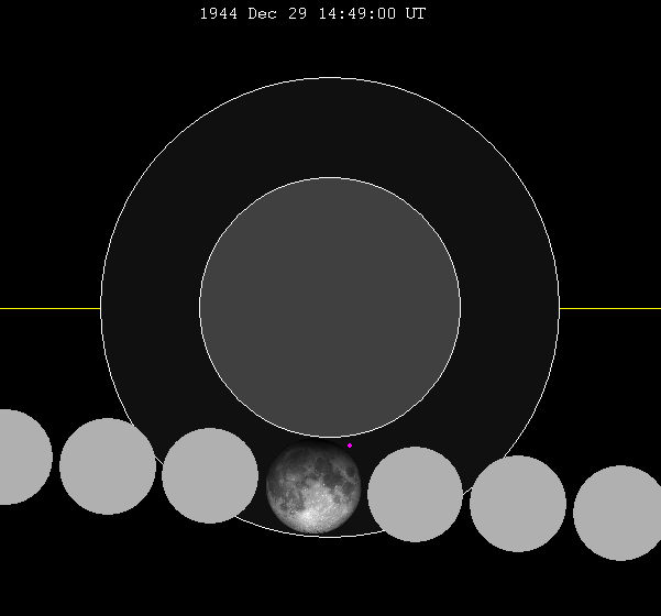 Lunar eclipse chart of moon's path through the earth's shadow. thumb